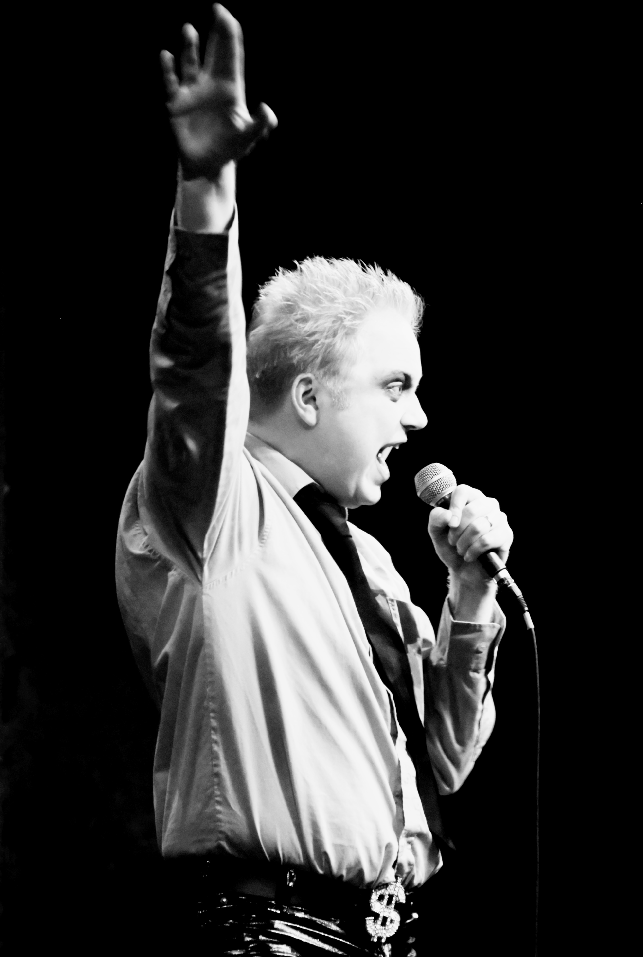 Gary Le Strange (Waen Shepherd), performing live at the Resofit, a benefit night for Resonance FM presented by Stuart Lee.